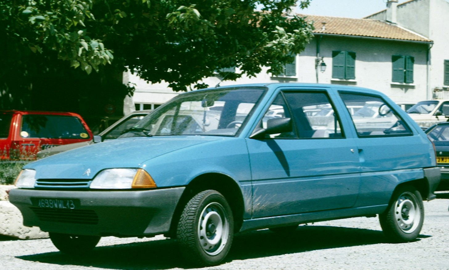 Citroen AX shortly after model launch.